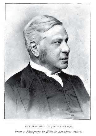 Hugo Harper, Headmaster of Cowbridge Grammar School (1847–1850) and Sherborne School (1851–1877) before becoming Principal of Jesus College (1877-1895)